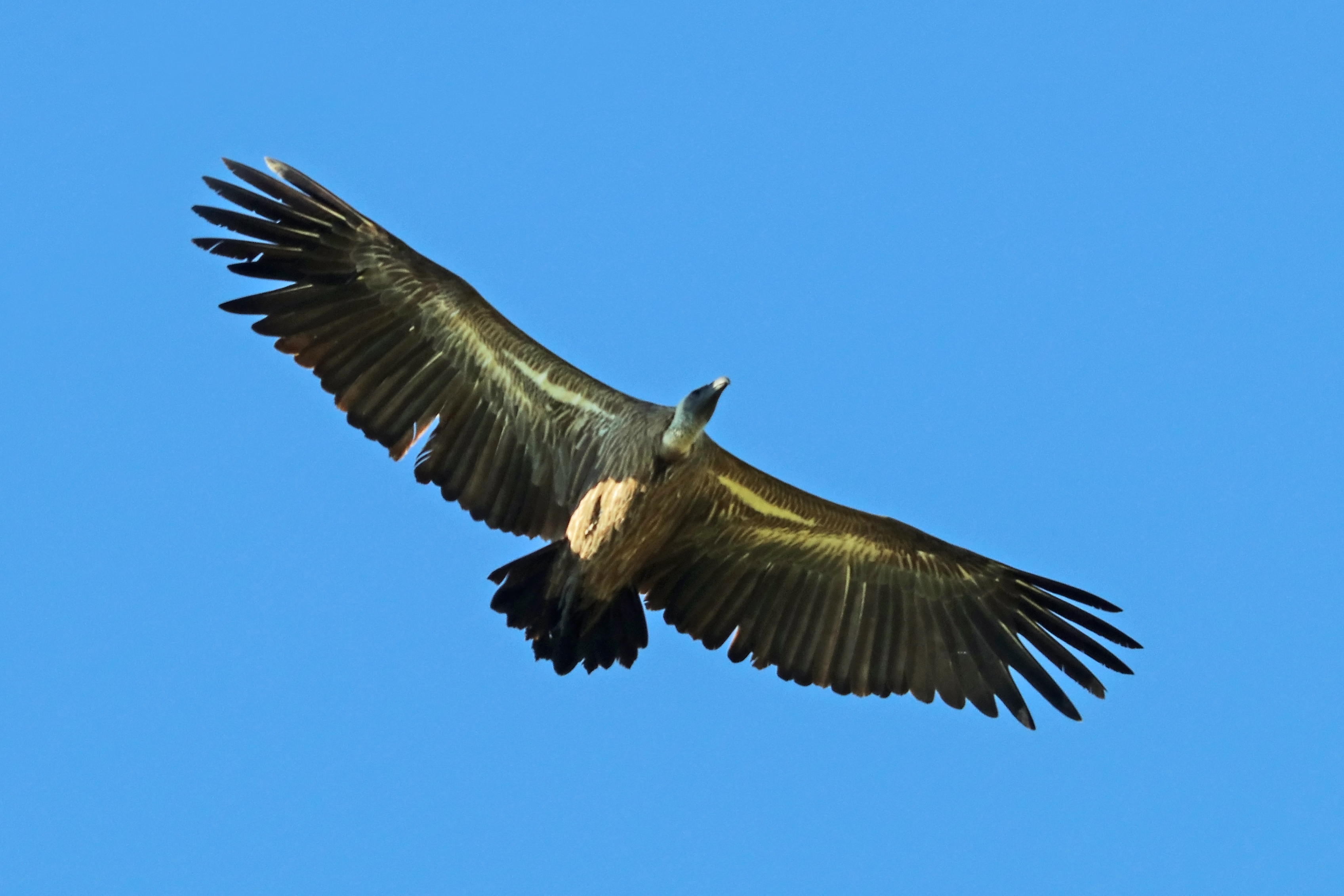 White-backed vulture (Gyps africanus) juvenile in flight, Matetsi Safari Area, Zimbabwe